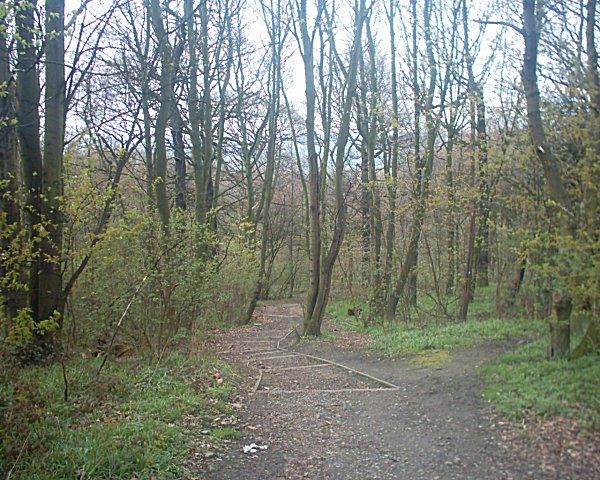 Woolley Woods, Concord Park, Sheffield.